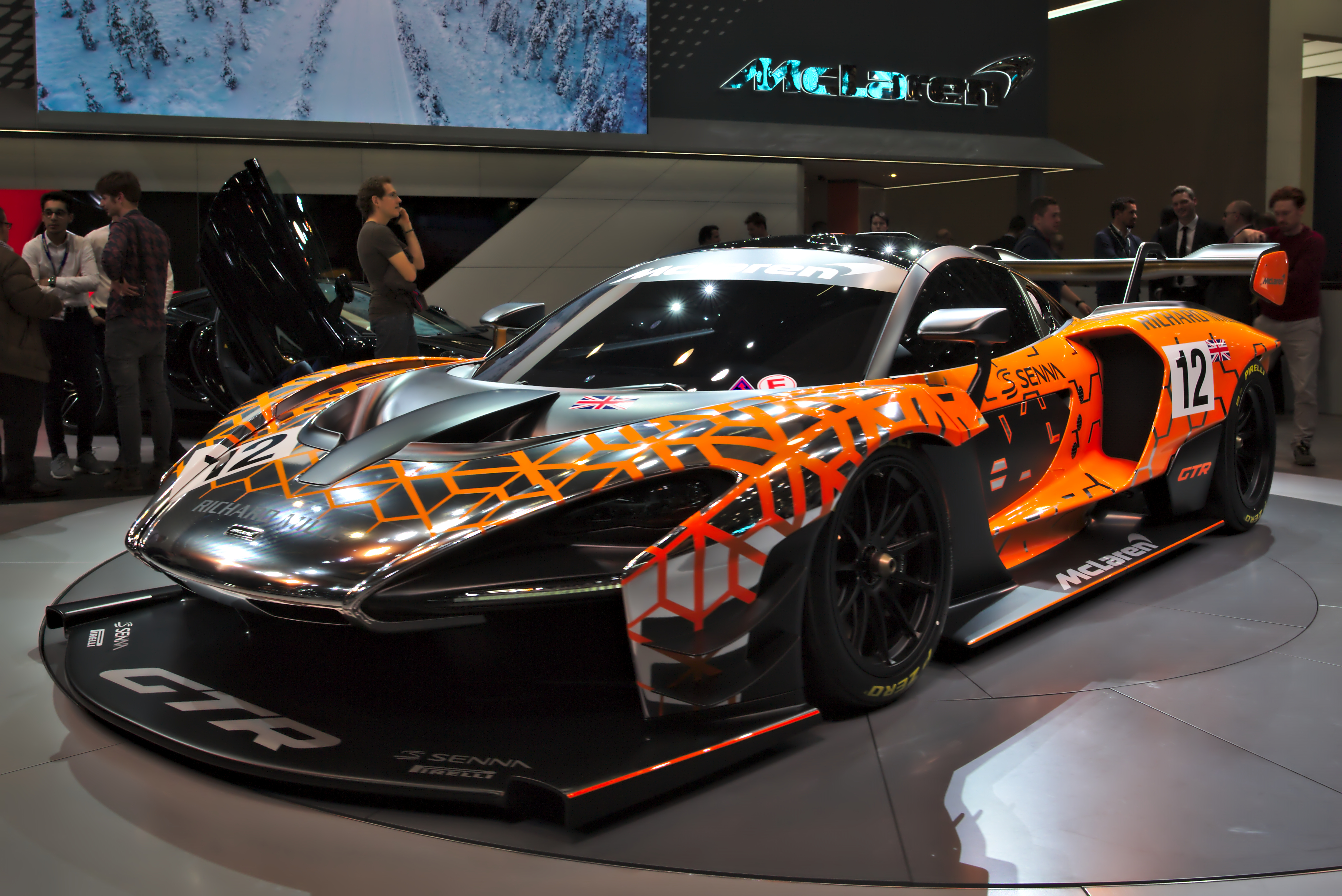 McLaren Senna GTR at Geneva Motorshow 2018